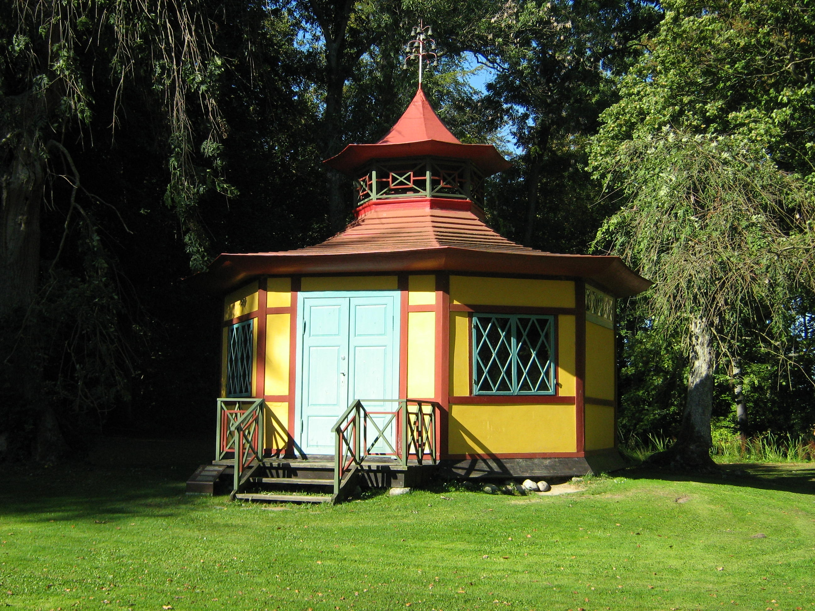 Liselund, Møn, Denmark. Det kinesiske lysthus or the Chinese House.